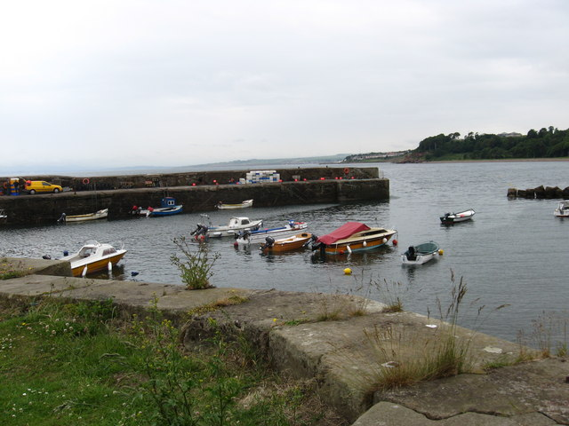 West Wemyss Harbour Once a major exporter of coal, there has been a harbour at West Wemyss for, at least, 500 years.